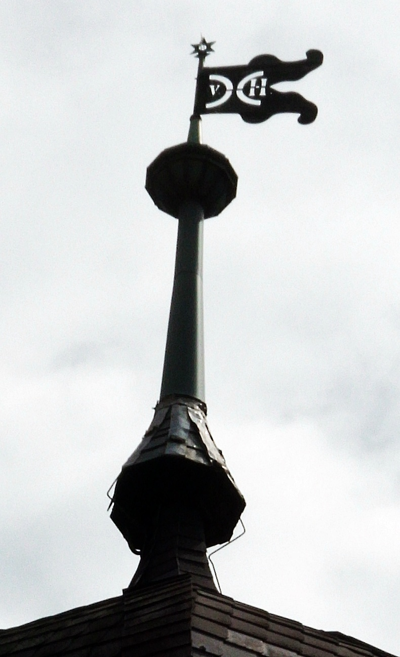 Lambsheim Meckenheimersches Schloss (Junkergasse) Wetterfahne mit Wappen und Monogramm der Freiherrn von Hacke